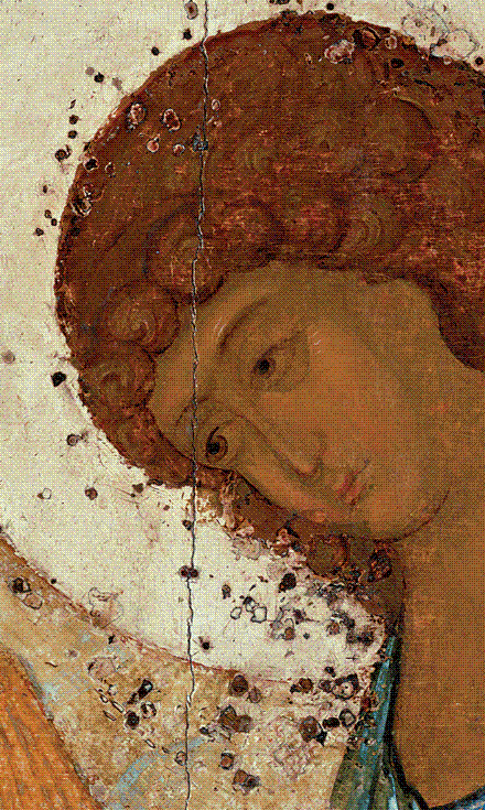 Holy Trinity Icon (Andrej Rublëv). Detail